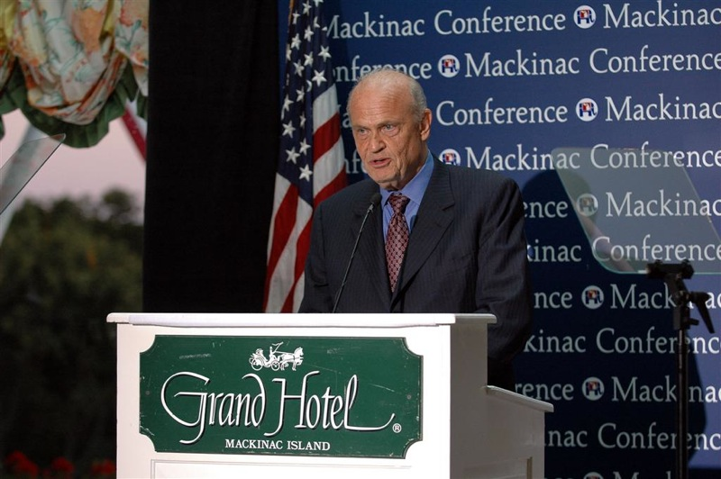 Fred speaks at the Grand Hotel